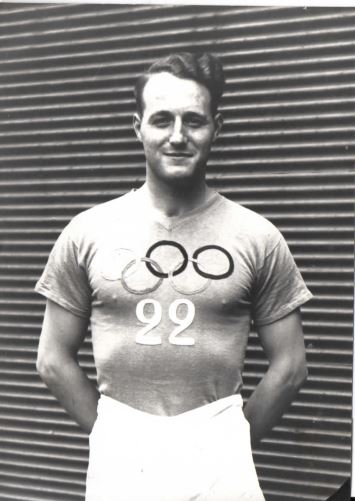 French basketball player Edmond Leclère at the 1936 Olympic Games